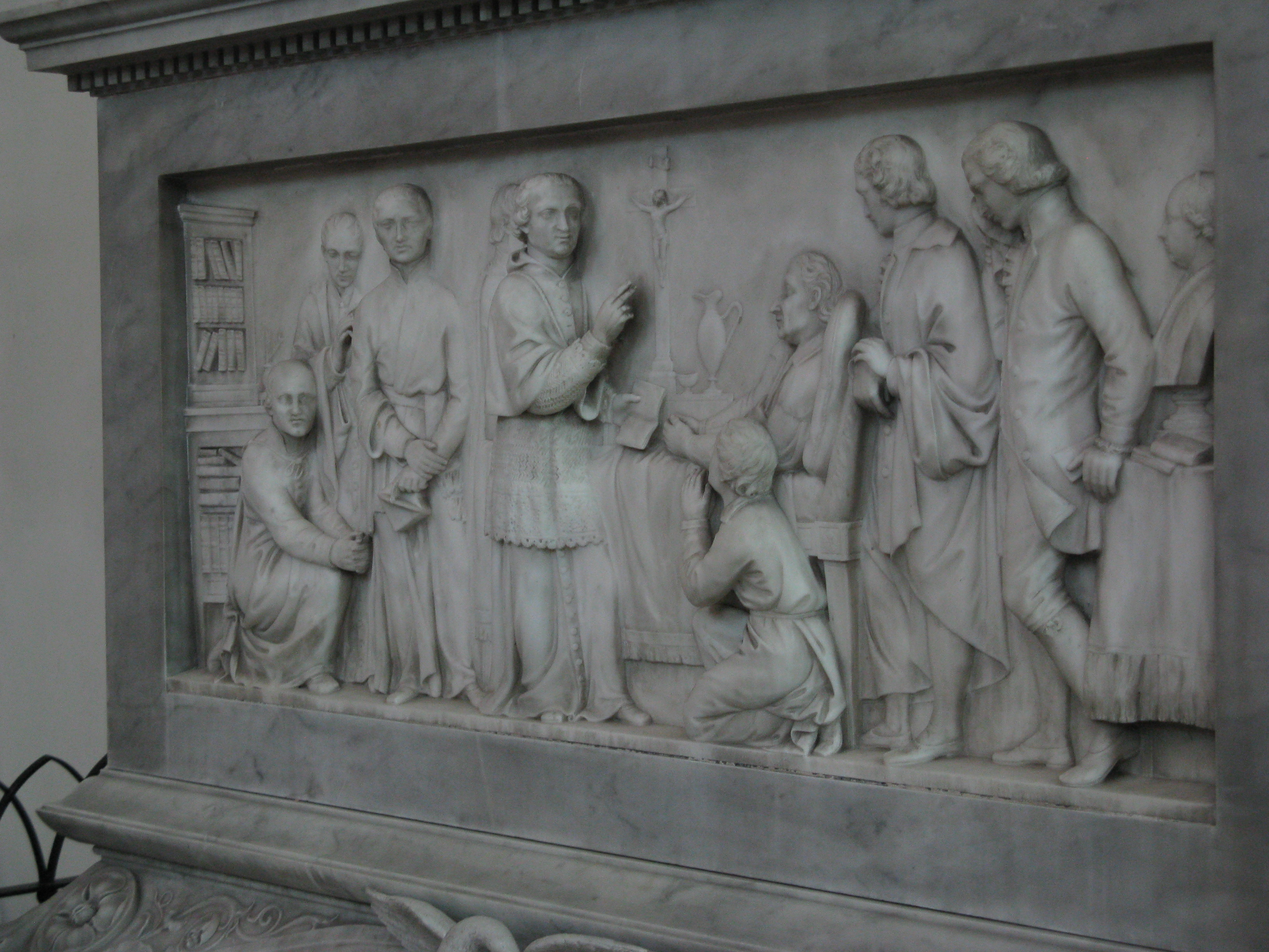 Monument for Pietro Metastasio, in the Minoritenkirche, Vienna. This monument, made by Vincenzo Lucardi, was erected in memory of the "Poet Laureate" Metastasio in 1855. In the central relief, Pope Pius VI is depicted blessing the dying Poet. Behind him the composer Antonio Salieri followed by composer Wolfgang Amadeus Mozart, while composer Joseph Haydn is looking at the Pope.